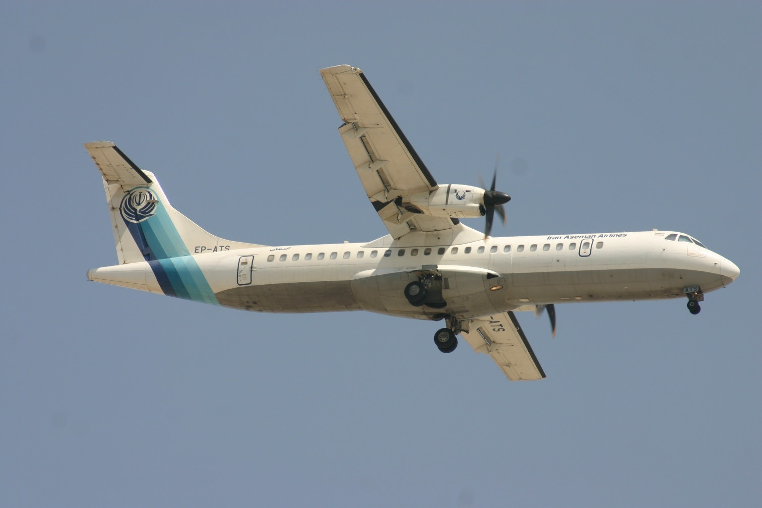 At Dubai International DXB